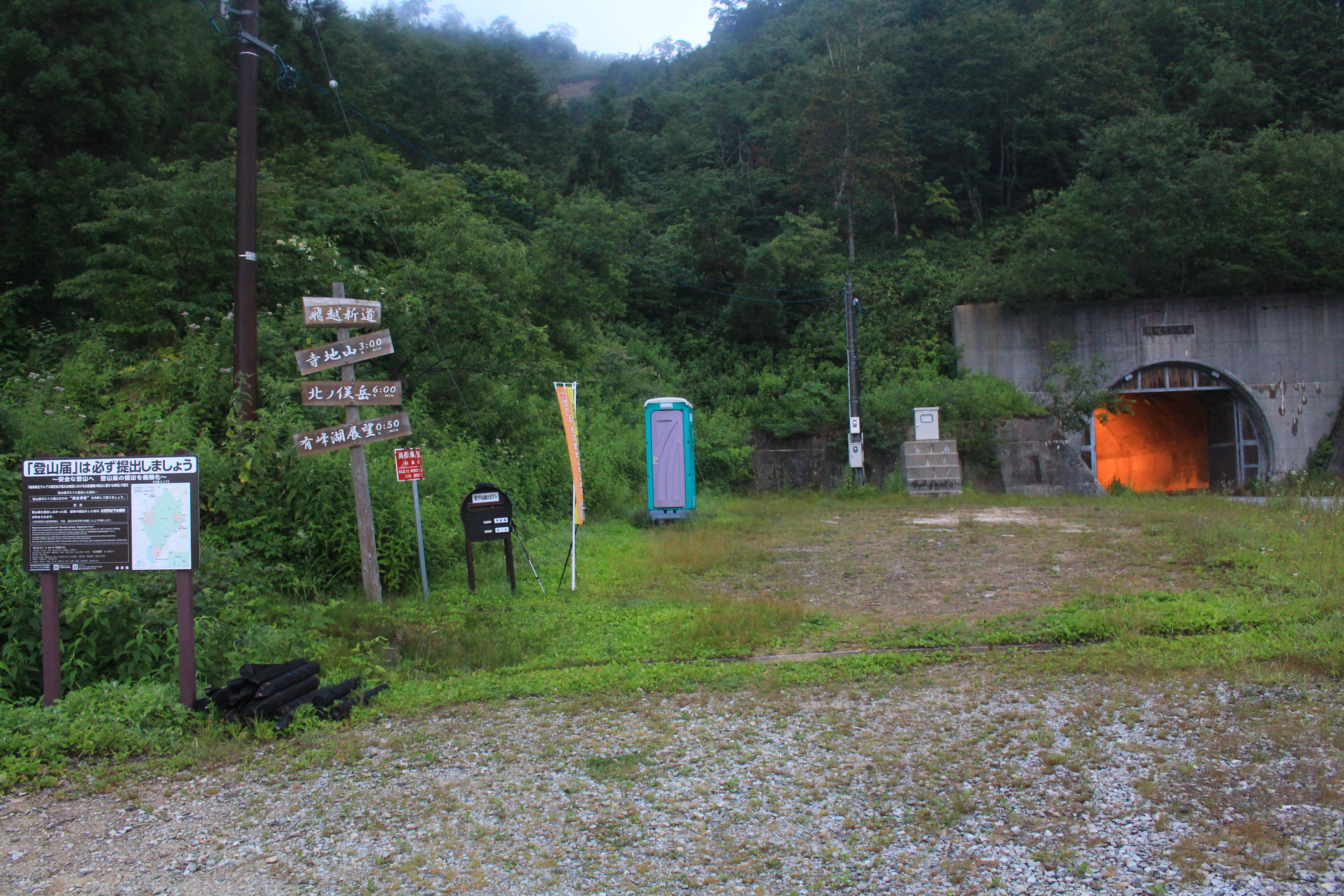 Hietsu tunnel in Hida, Gifu prefecture, Japan.